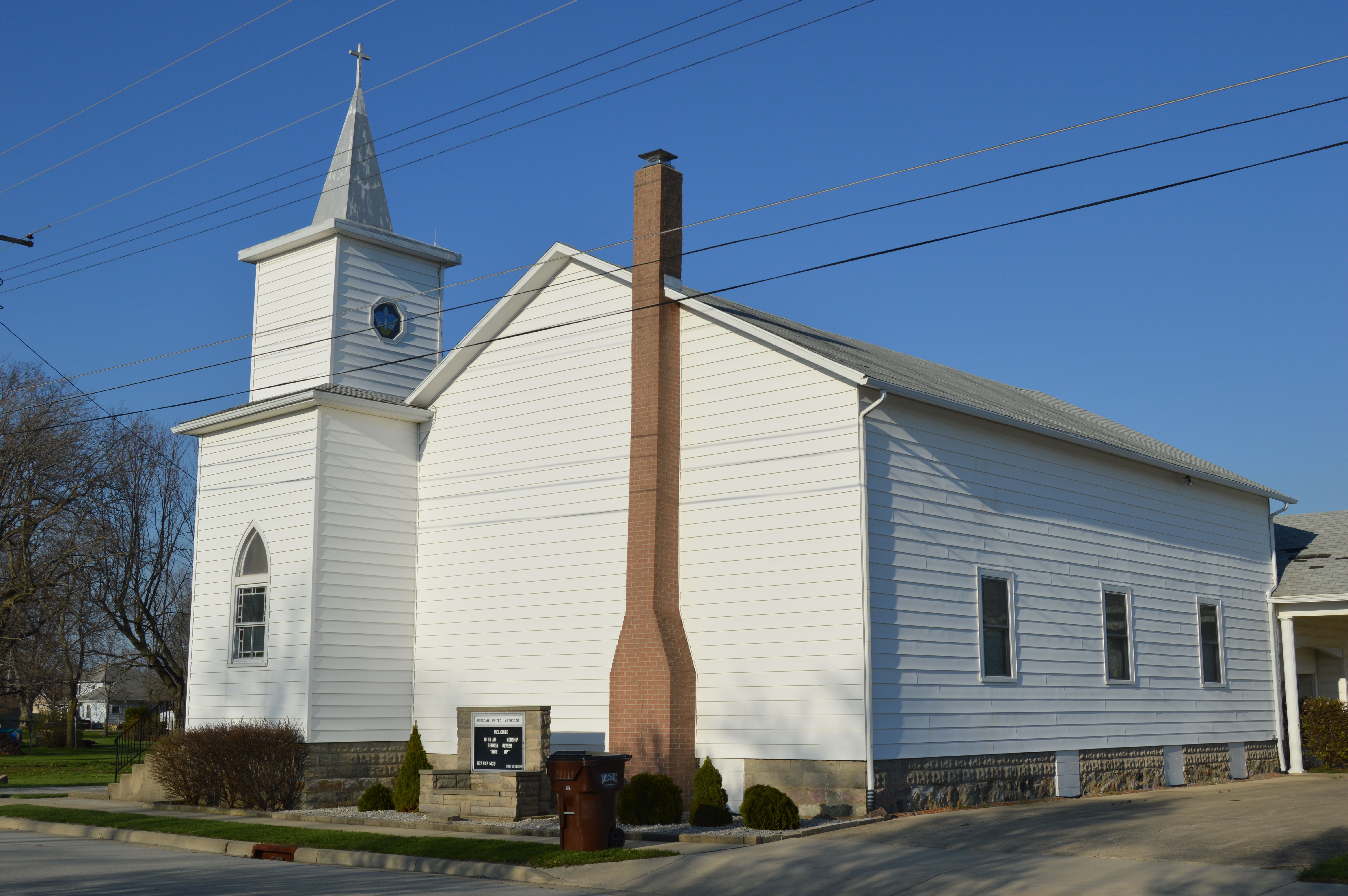 Front and southern side of the Potsdam United Methodist Church, located at 12 S. Main Street (State Route 721) in Potsdam, Ohio, United States.